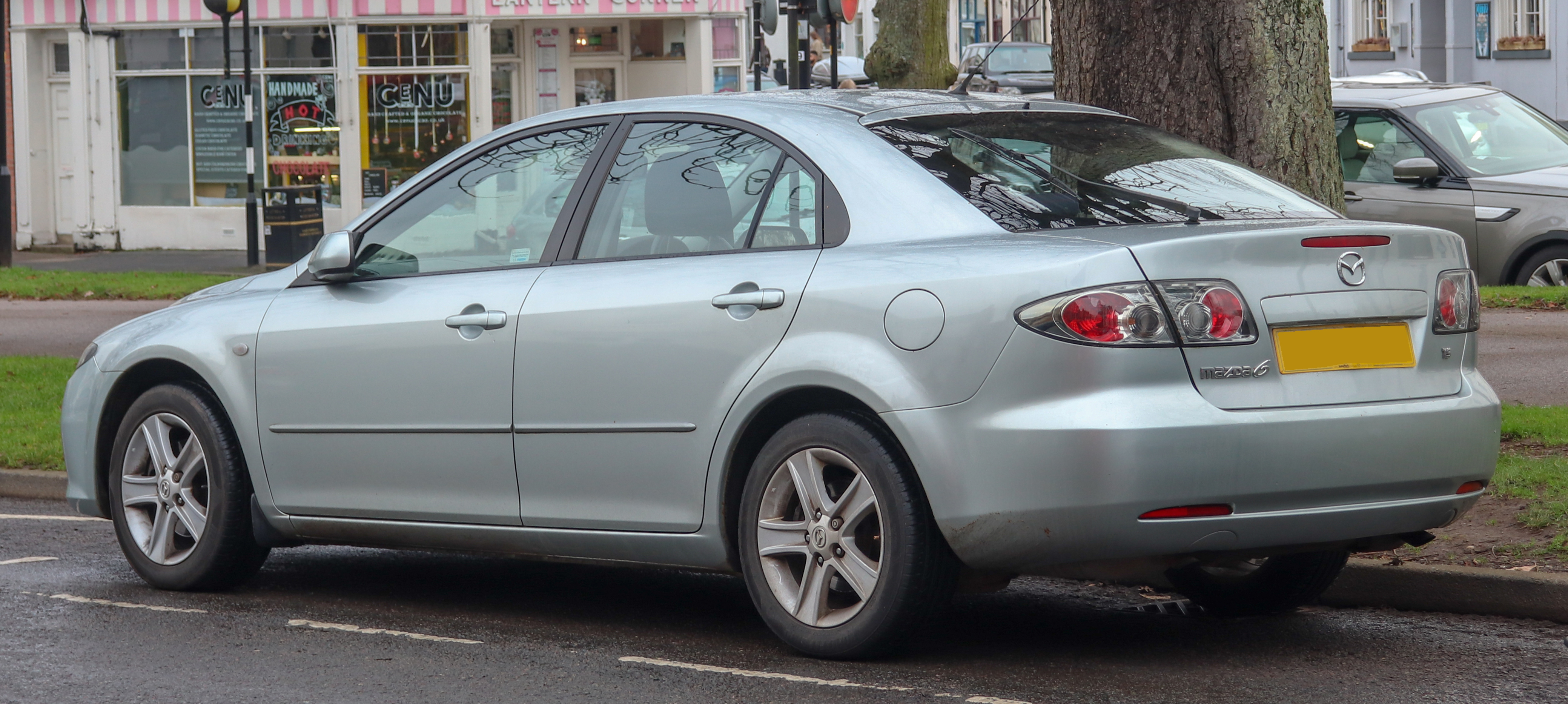 2006 Mazda6 TS 2.0 Rear Taken in Leamington Spa